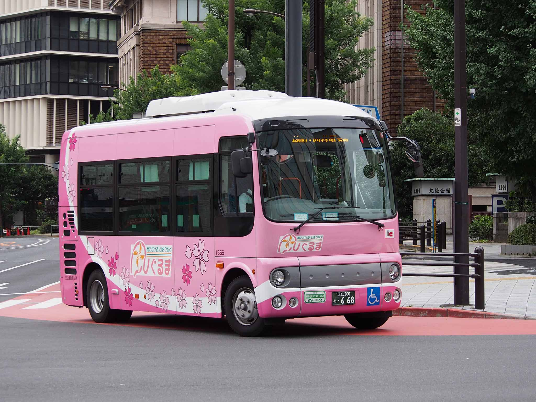 Fleet of Hitachi Jidosha Kotsu, for Chiyoda Ward Welfare Route Bus "Kazaguruma". Model: Hino Poncho HX License plate: TKA200A-668 Place: Kudan-shita crossing, Chiyoda Ward, Tokyo Japan